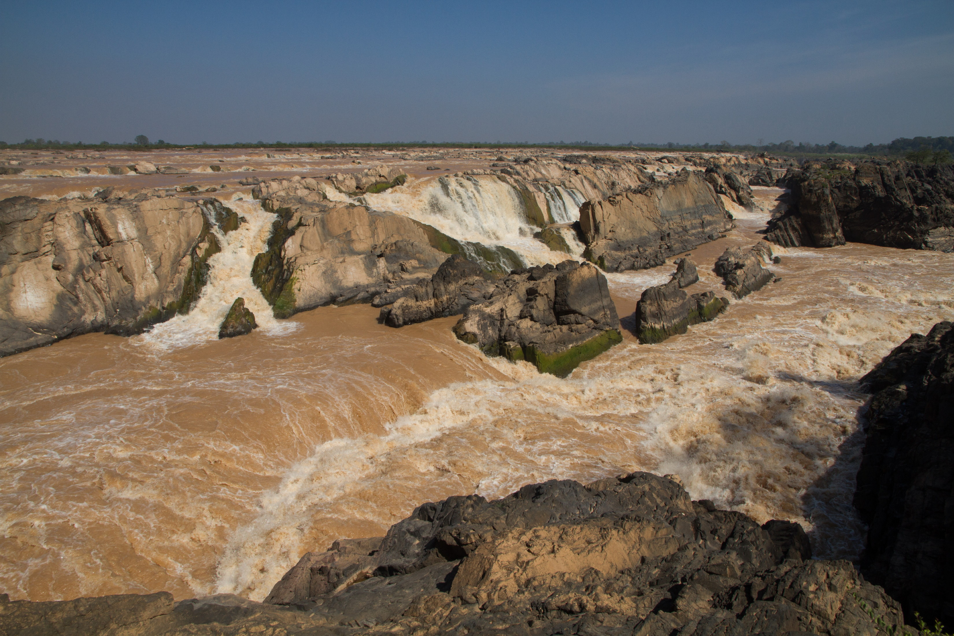 Sopheat Mit waterfalls near the border of Laos and Cambodia